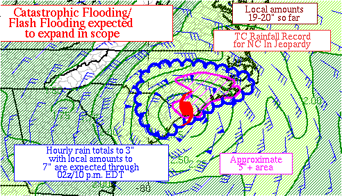 Synoptic analysis of precipitation associated with Hurricane Florence as it moved over the Carolinas on September 14, 2018